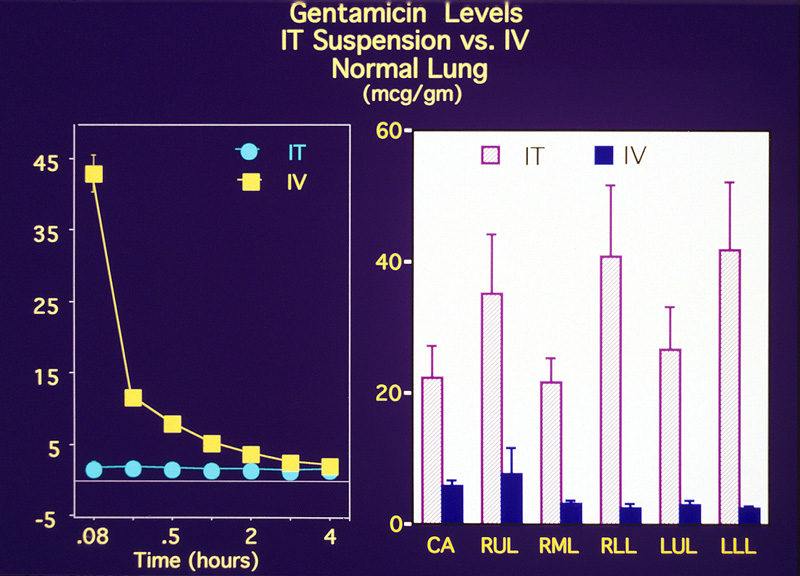 Comparison of IT and IV administration of gentamicin. Image courtesy of TH Shaffer.